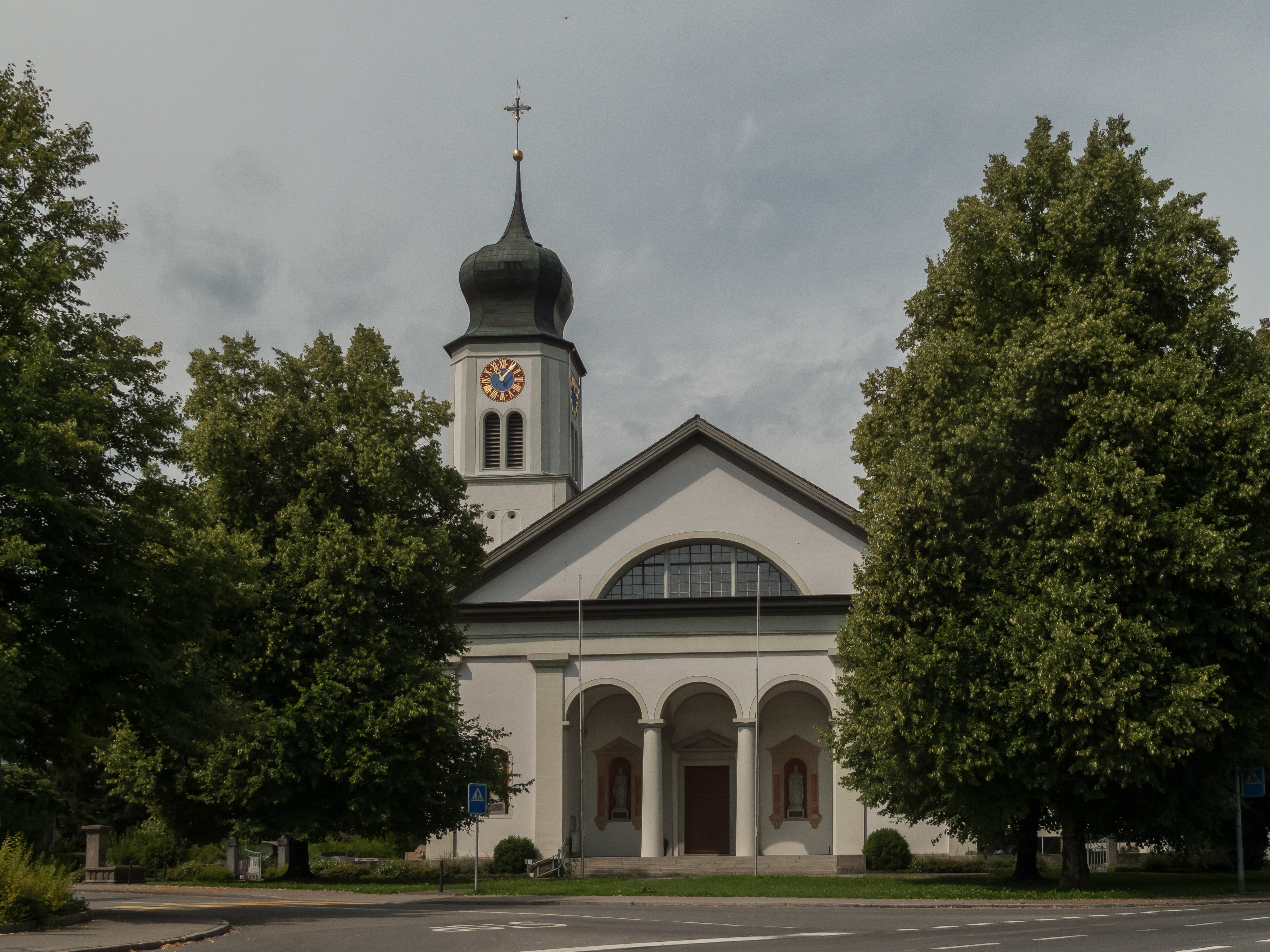 Galgenen, church: Katholische Pfarrkirche Sankt Martin